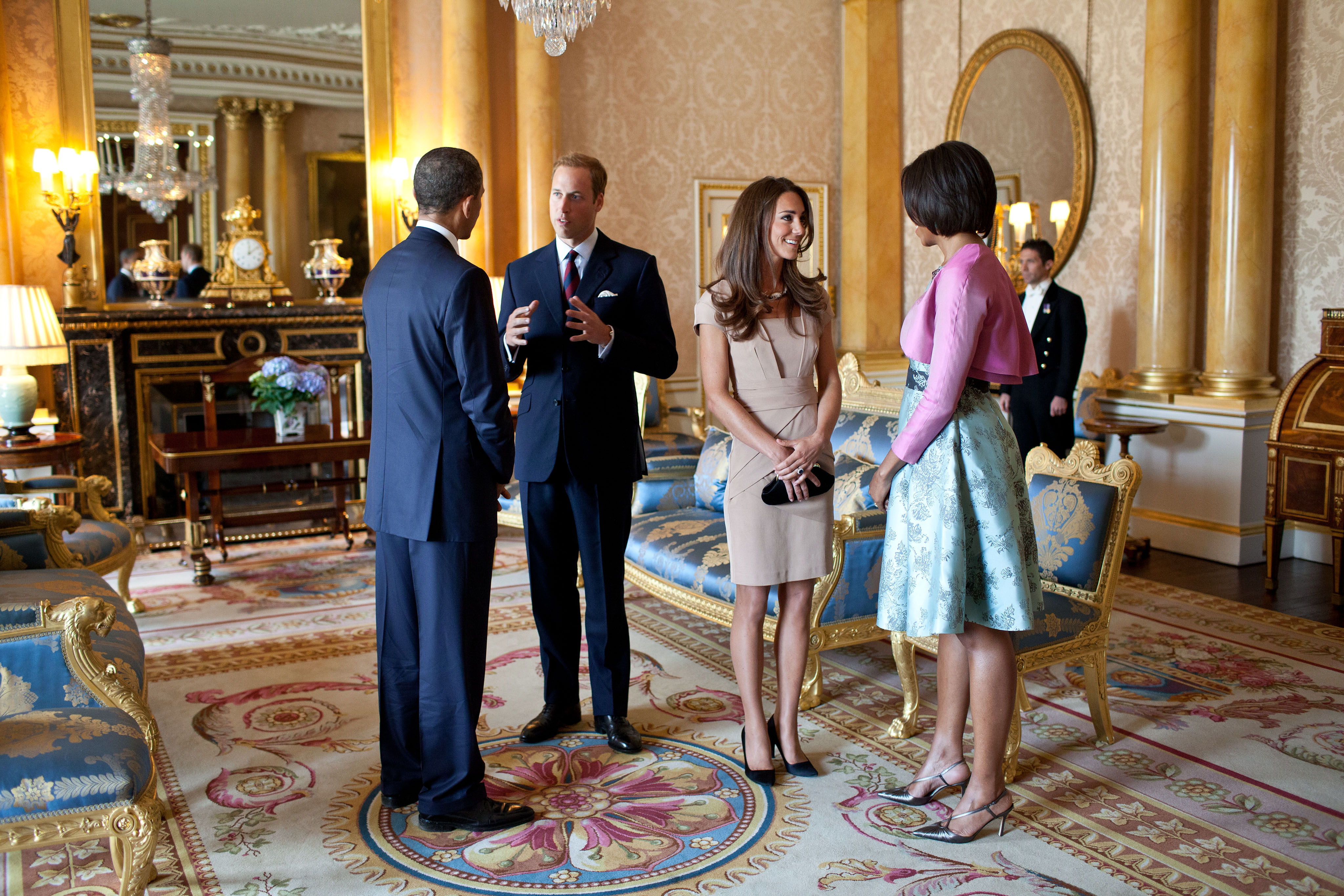 President Barack Obama and First Lady Michelle Obama talk with the Duke and Duchess of Cambridge in the 1844 Room at Buckingham Palace in London, England, May 24, 2011. (The mint hued floral frock of Michelle Obama is the work of Barbara Tfank, from the designer's Resort 2011 collection)